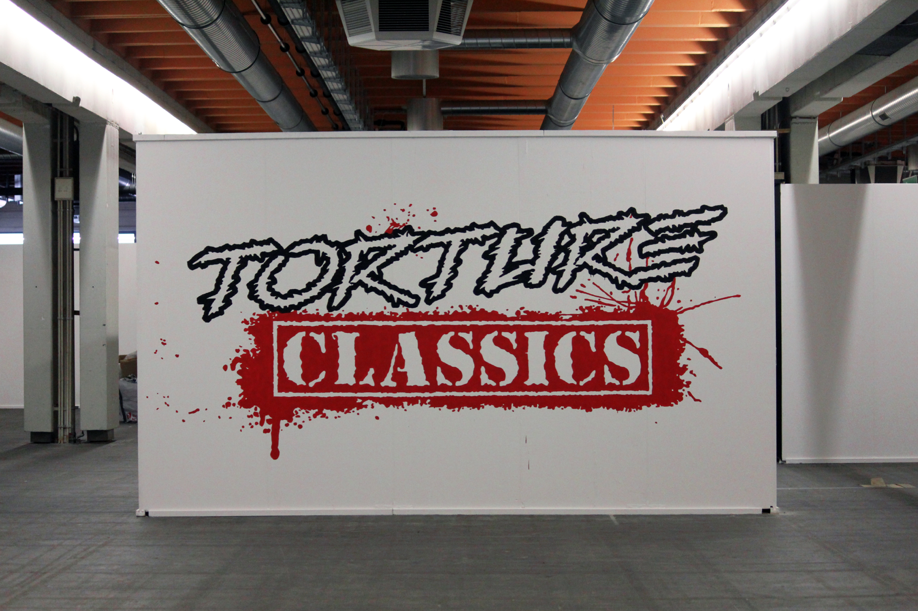 TORTURE CLASSICS combines the clandestine world of military torture and special sonic interrogation techniques (music torture) with the megalomania of the global music-business. This Installation shot was made during ART Basel, Swiss Art Awards 2011 Exhibition where received an SAA for the project and installation.